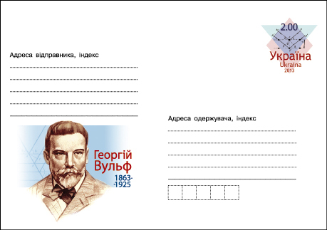 Cover dedicated to the 150th anniversary of George Wulff